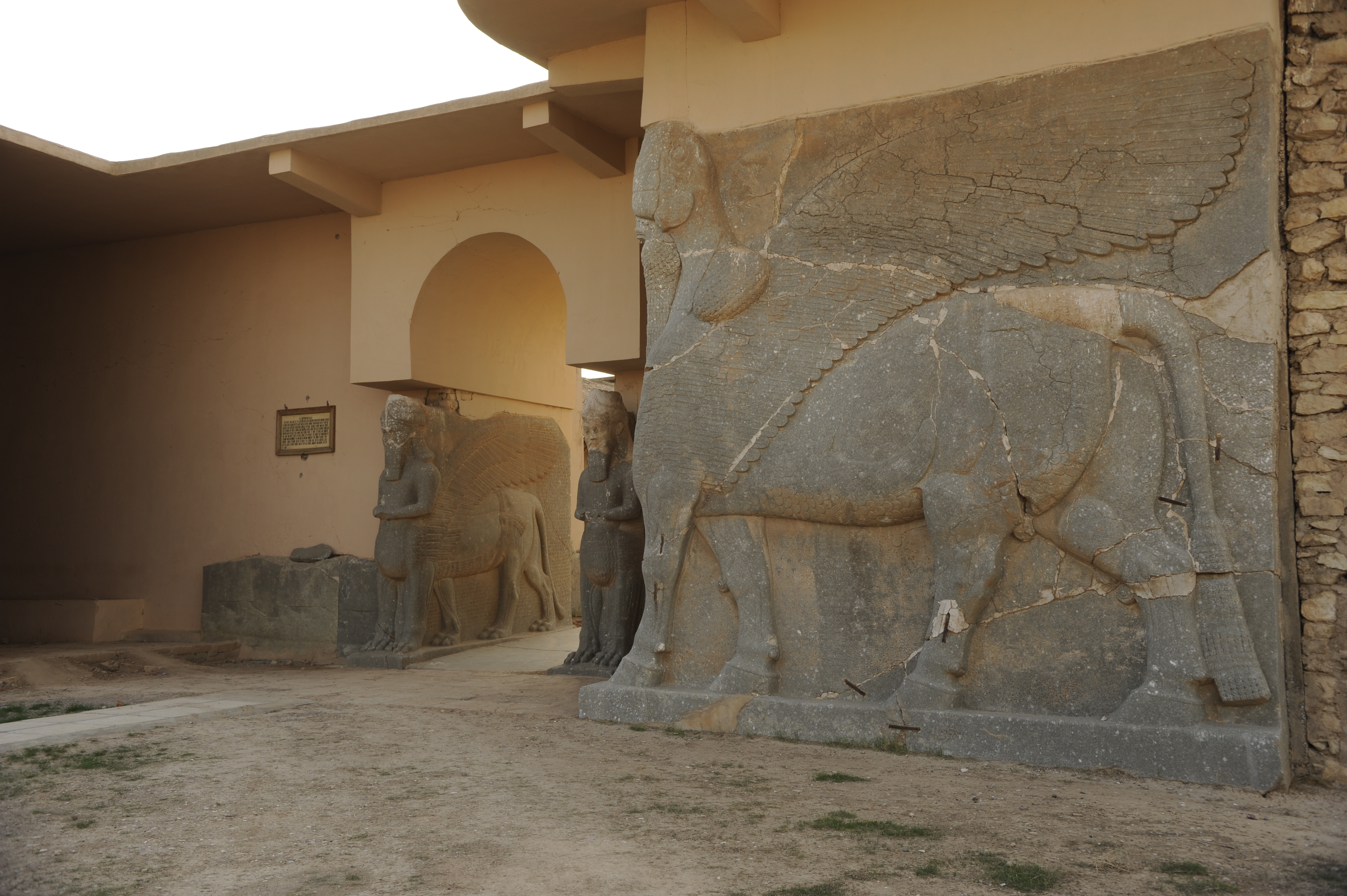 Portal guardians mark the entrance to what once was the Northwest palace in the ancient city of Calah, which is now known as Nimrud, Iraq, Nov. 19. Nimrud is in consideration by United Nations Educational, Scientific, and Cultural Organization to become a protected World Heritage site. UNESCO works to create the conditions for genuine dialogue based upon respect for shared values and the dignity of each civilization and culture.